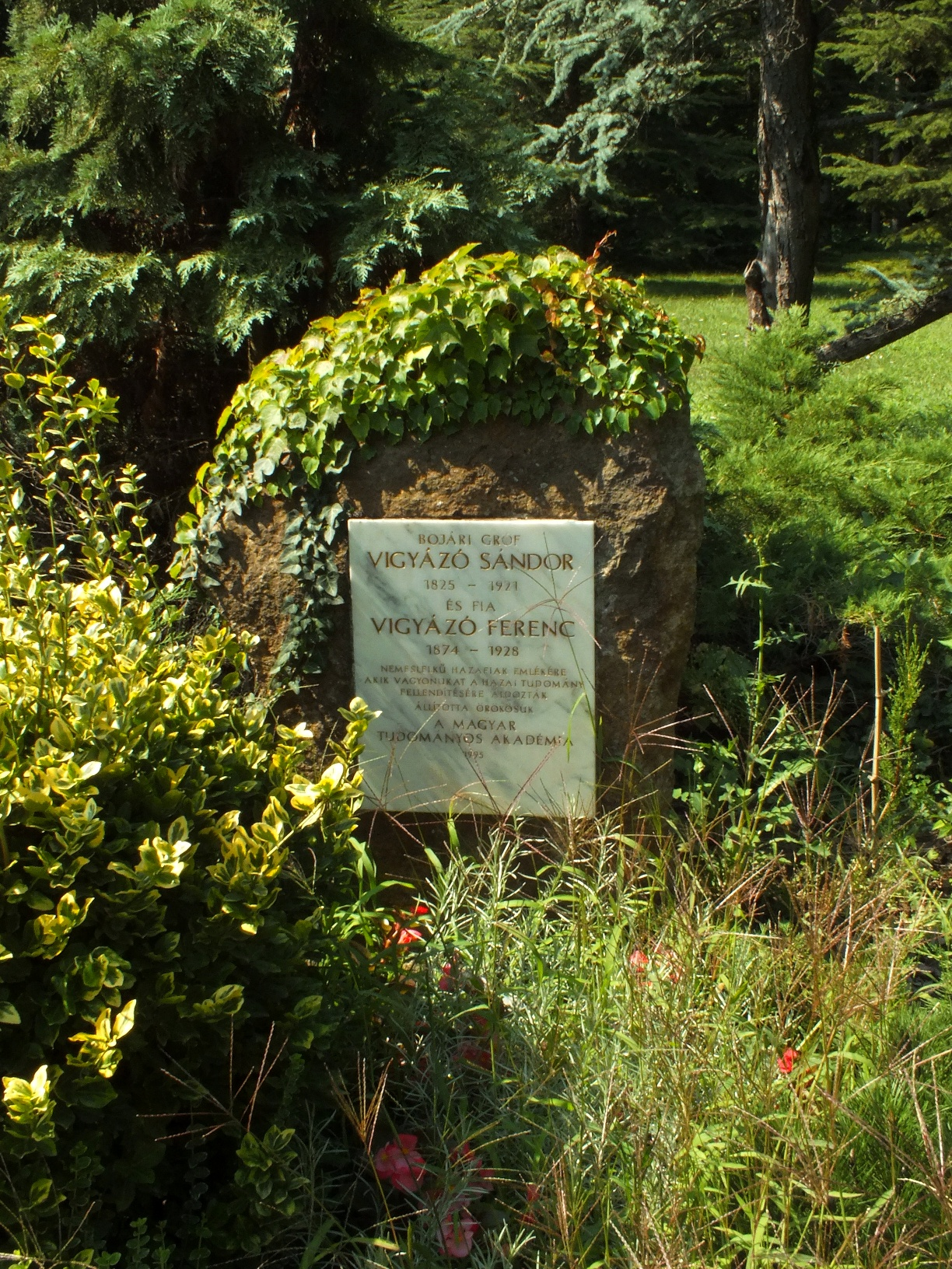 Memorial plaque of Count. Sándor and Ferenc Vigyázó